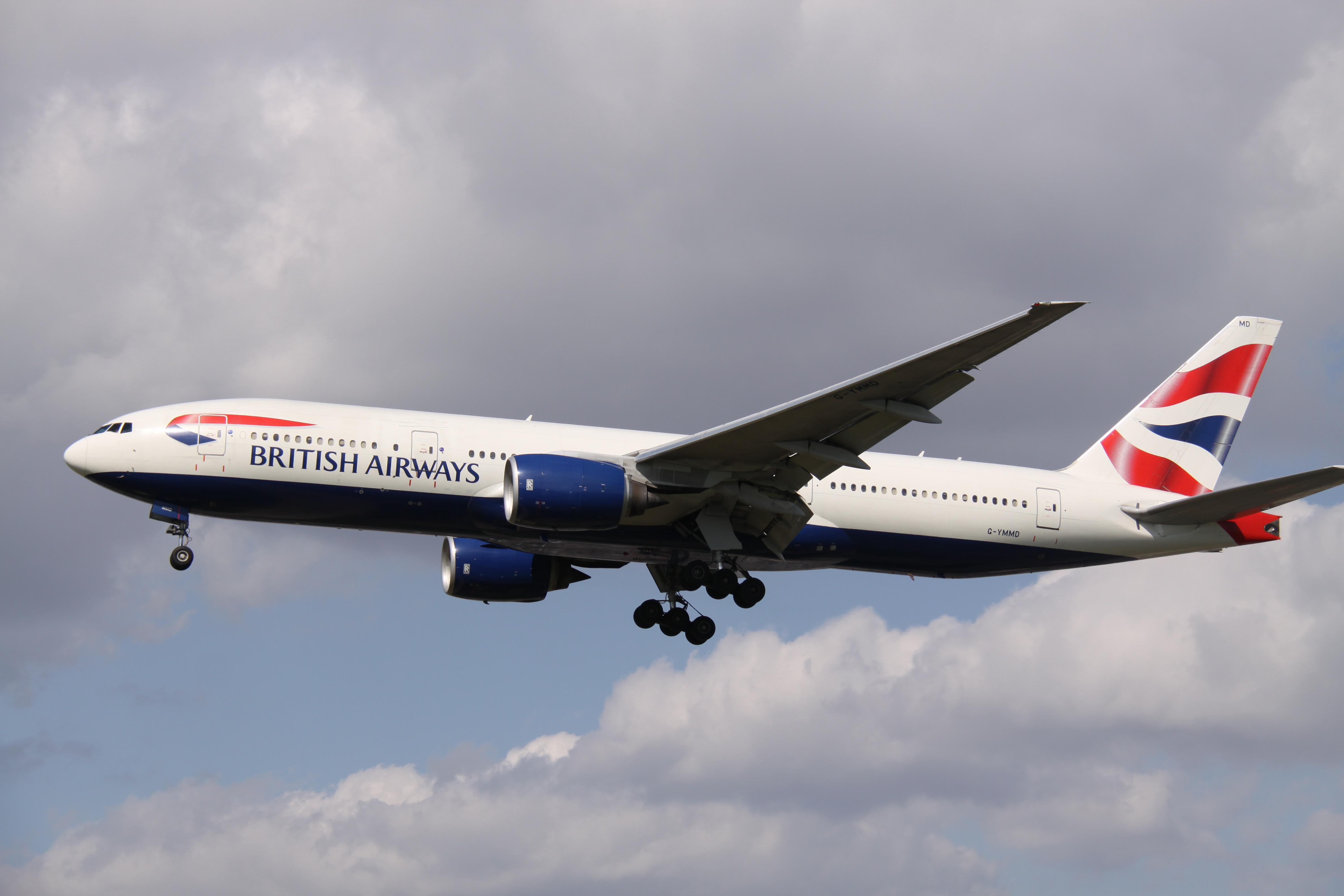 At London Heathrow